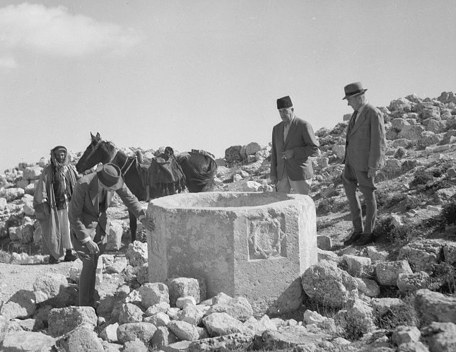 Byzantine baptismal font at Tuku, anno 1940.